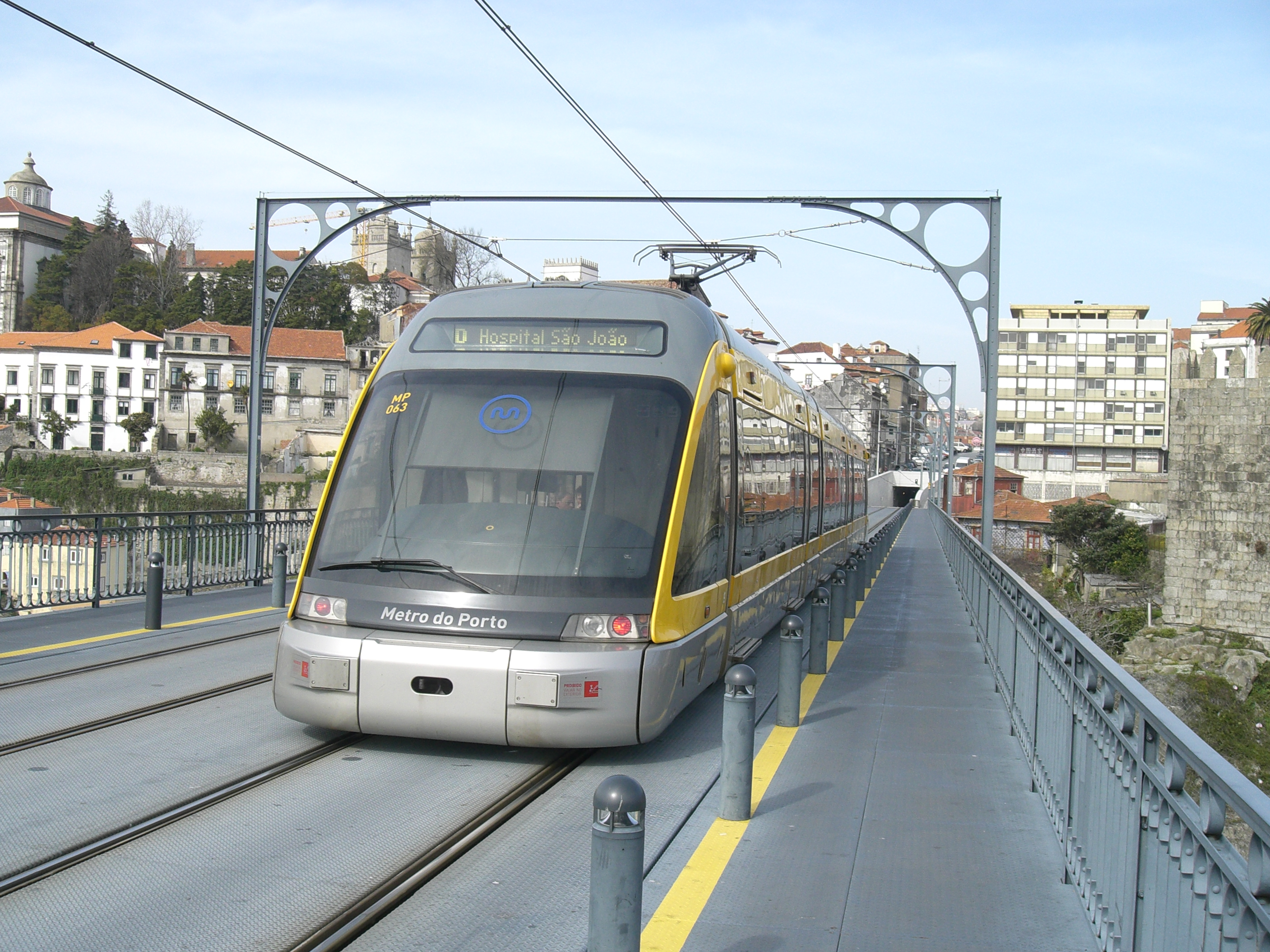 Dom Luis I bridge with light-rail car of the Metro do Porto, in Porto, Portugal